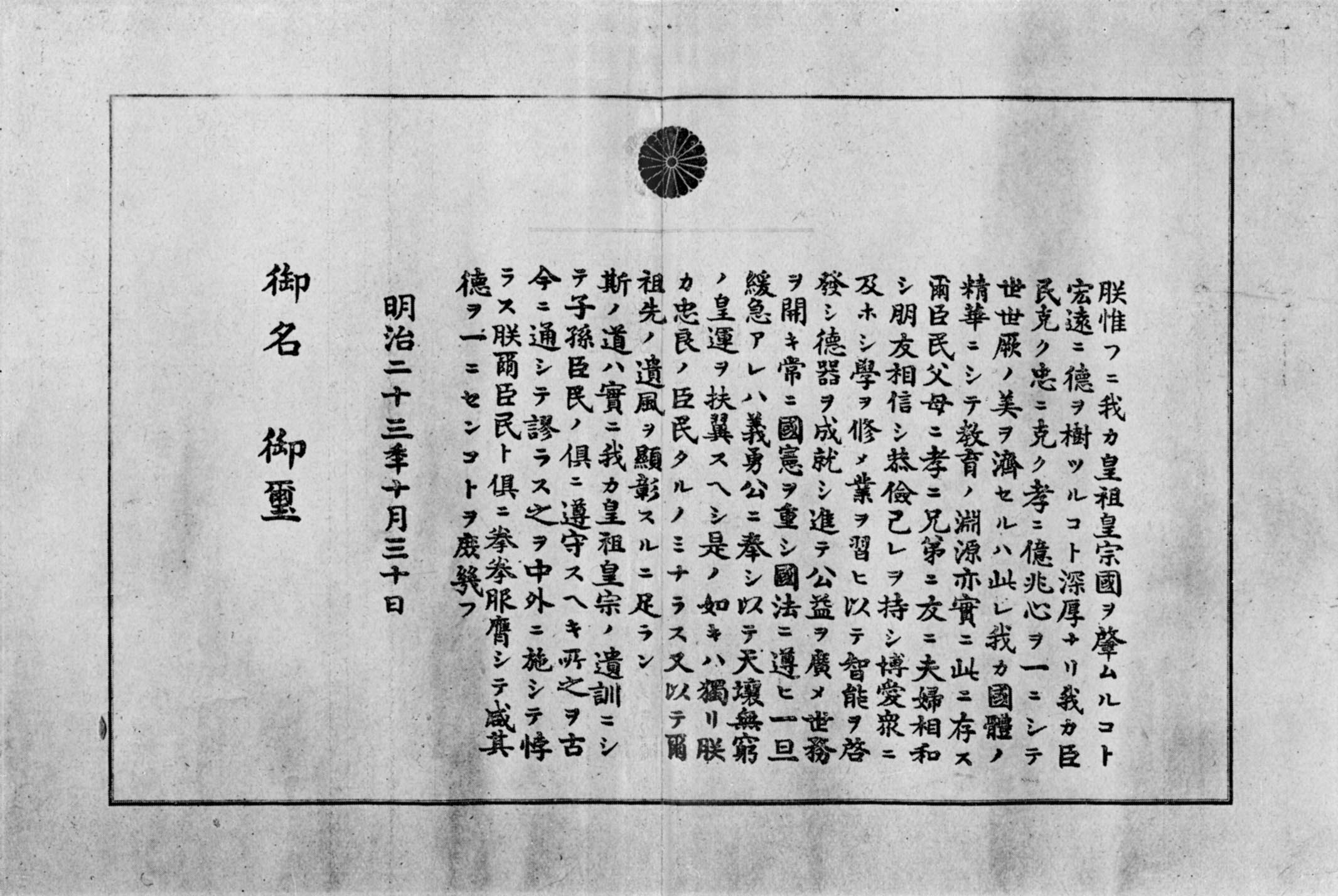 A copy of the Imperial Rescript on Education distributed to various schools in Japan by the Department of Education.